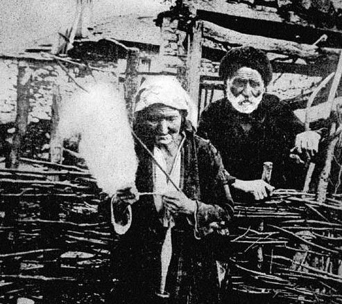 Picture of peasants in Bulgaria, from The Bacillus of Long Life by Loudon M. Douglas (1911)